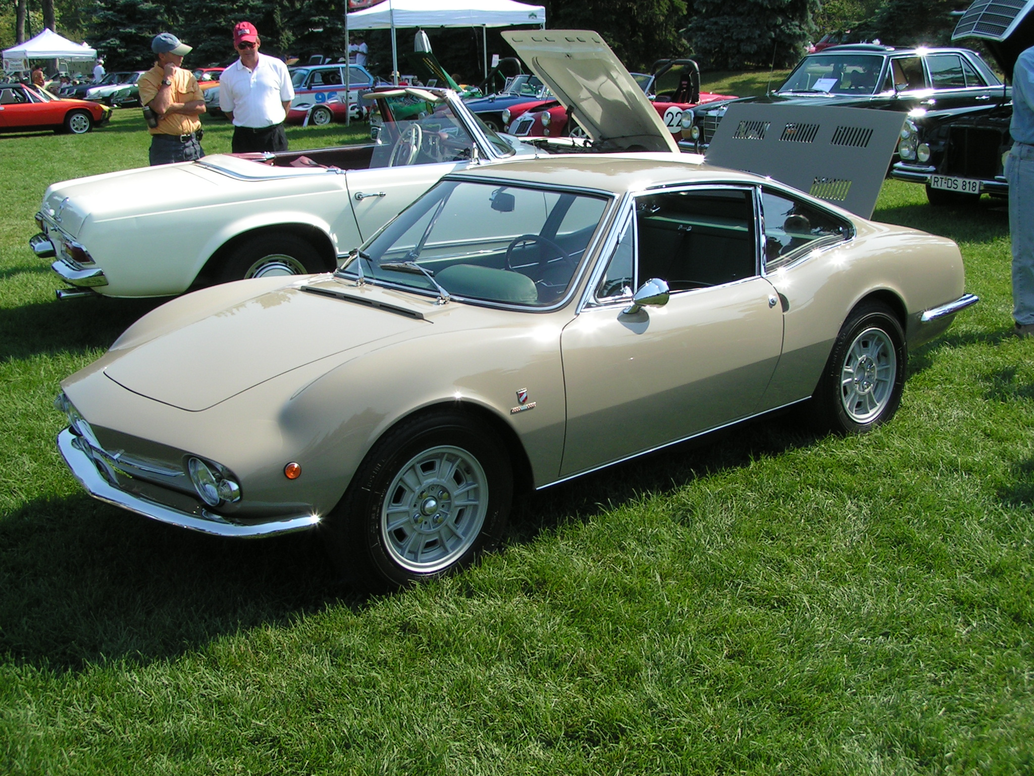 A very nice Fiat Moretti Sportiva - these are very rare. Only needing some seat cushions and covers. Its Fiat 850 based with 47hp engine. I found a nice little link for them